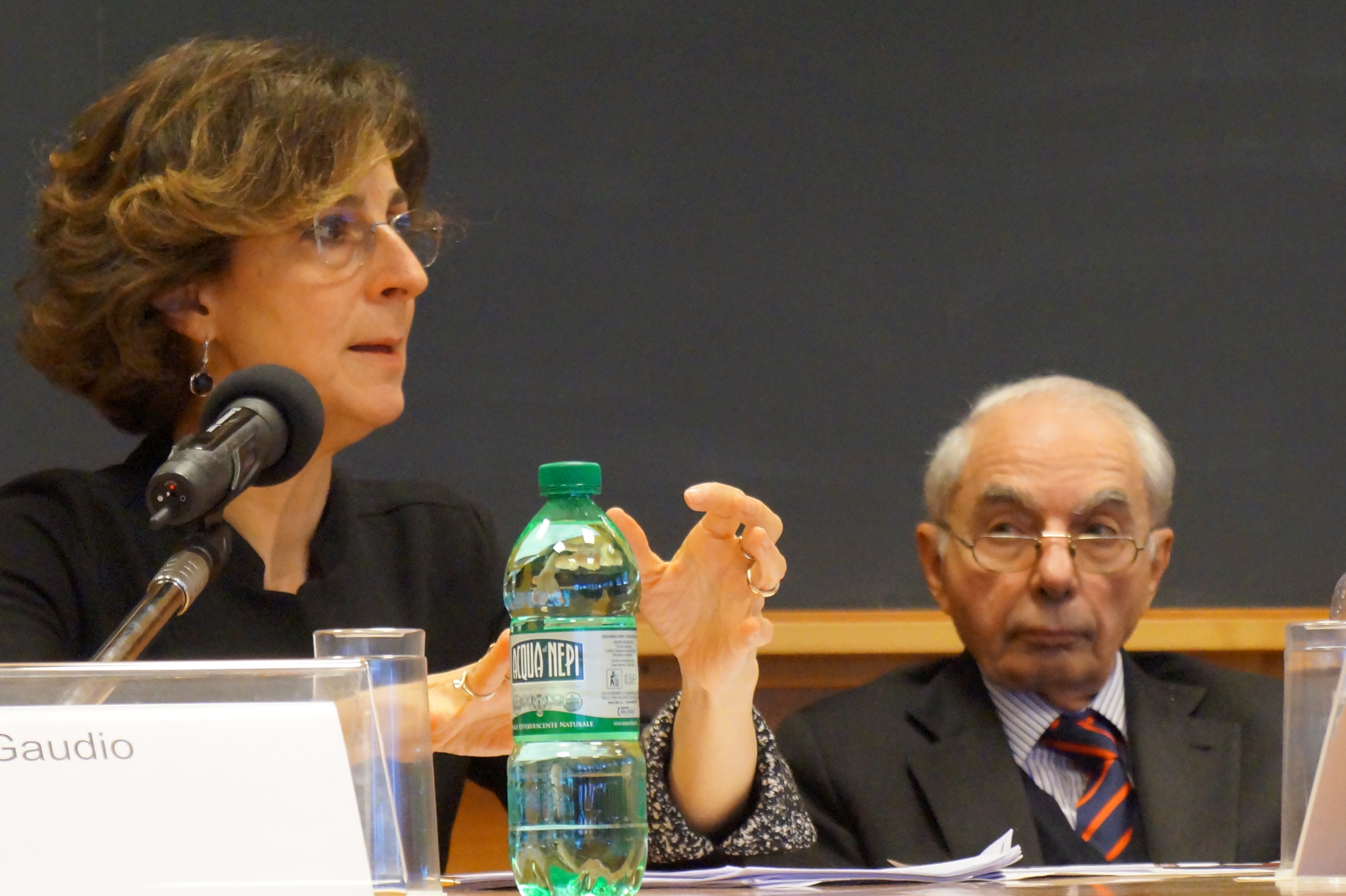 The Judge of the Italian Constitutional Court, Marta Cartable with her colleague Giuliano Amato, during a conference at Sapienza University